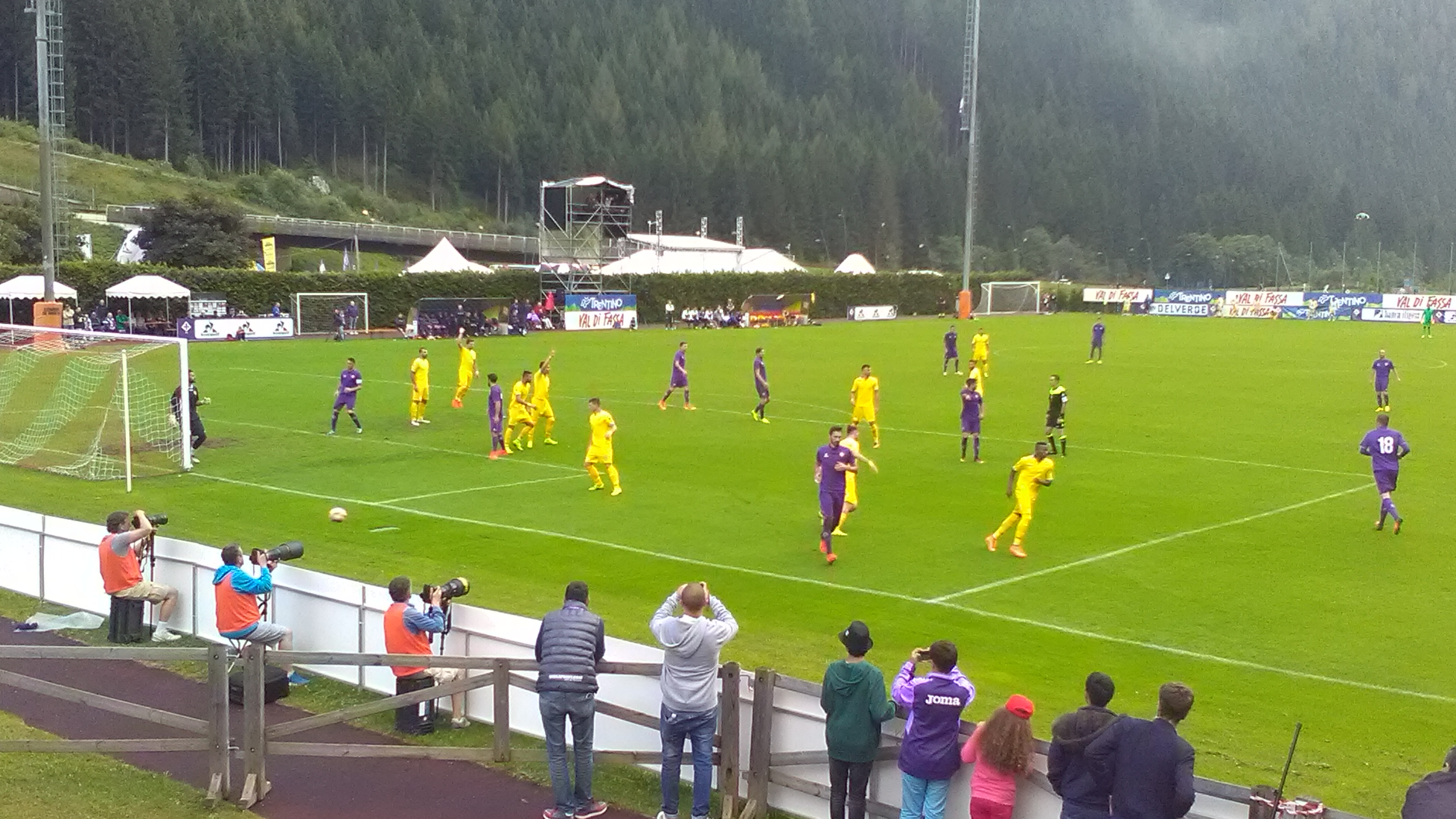 ACF Fiorentina - Panetolikos FC (3-0), preseason game in Moena, Italy - 23 July 2016